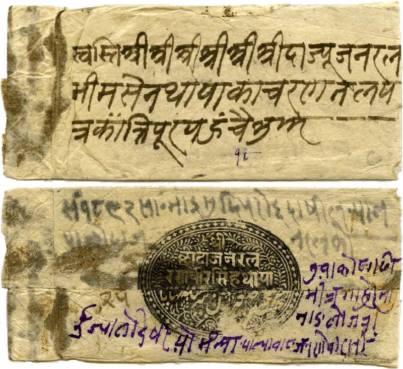 General Ranabir Singh Thapa (रणवीरसिंह थापा)'s handwritten letter to PM Bhimsen Thapa during 1835 AD signed by cover seal of Ranabir Singh